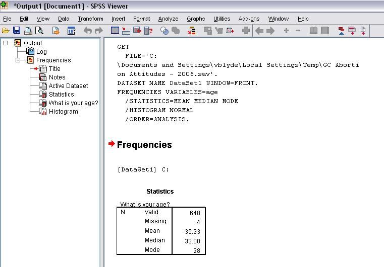 This is a screen shot of SPSS Syntax of mean median and mode analysis.